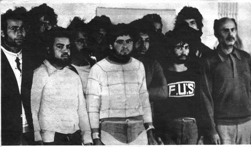 Captured assailants after 1980 Gafsa attack